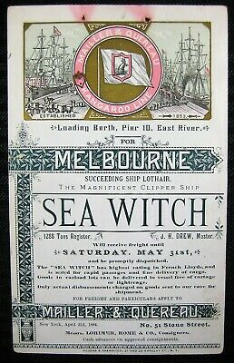 SEA WITCH Clipper ship sailing card. Mailler & Quereau Kangaroo Line (established 1853). J. H. Drew, Master. 1288 tons register.